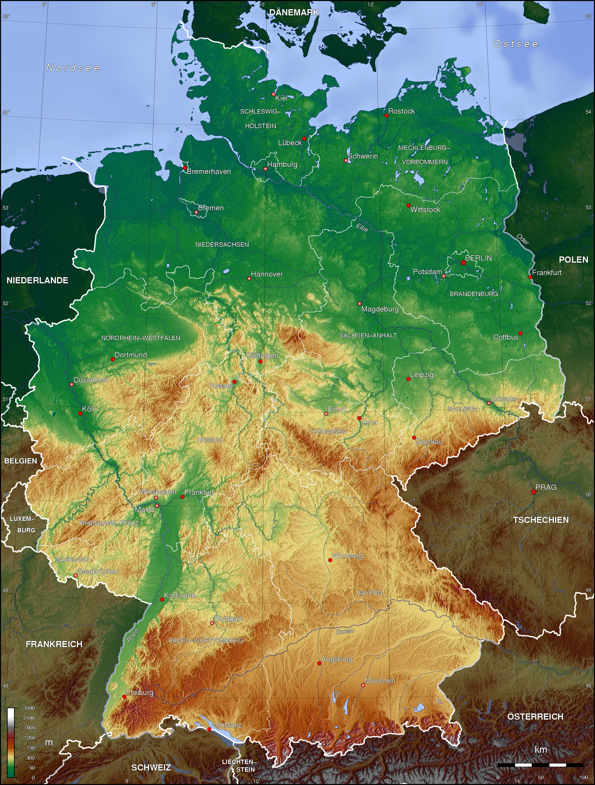 Topographic map of Germany (Borders of the States of Germany approximately as of 1990)